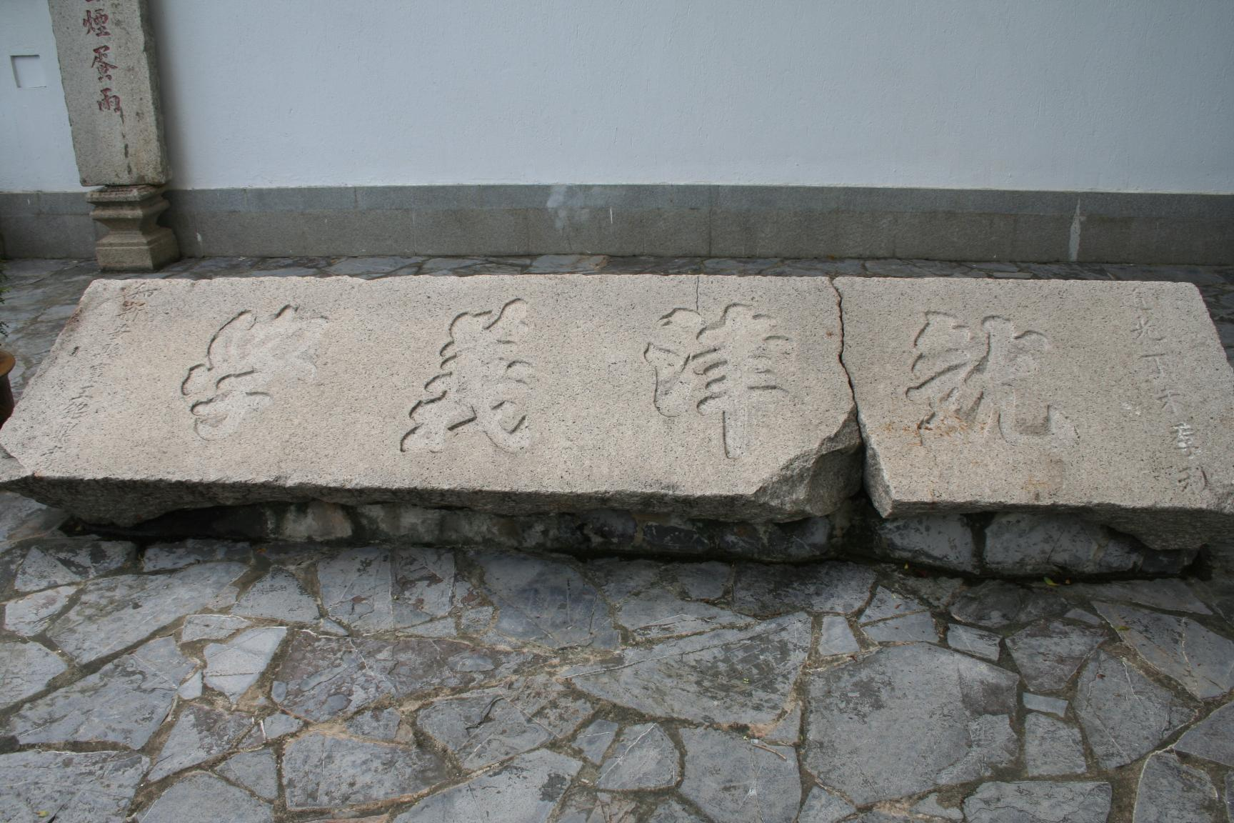 Kowloon Walled City Park 九龍寨城公園 is now located in today's Kowloon City District, Hong Kong. Photograph author is me.